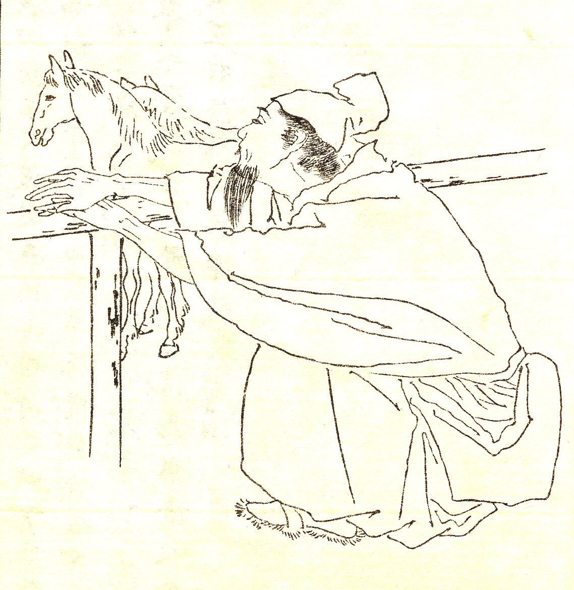 Fujiwara no Harutsu(藤原春津) was a Japanese politician and court noble in the Heian era.